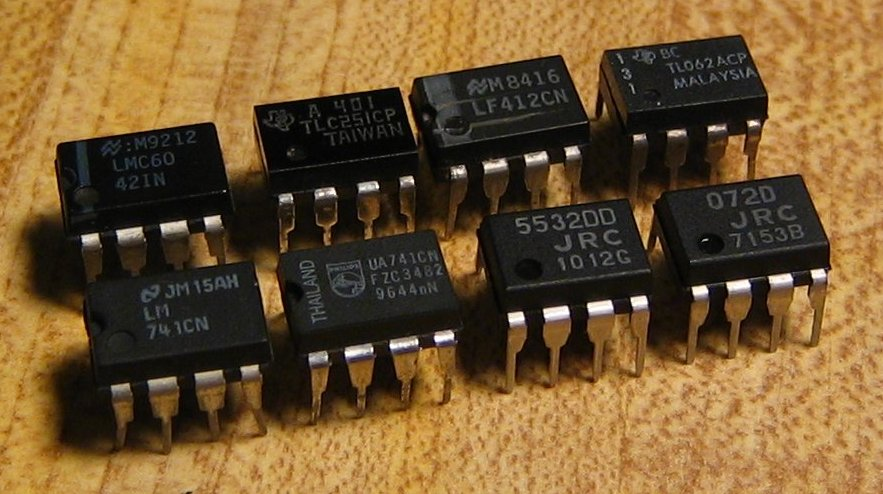 Several operational amplifier chips in DIP-8 packages. Both single and dual op-amp configurations are shown.